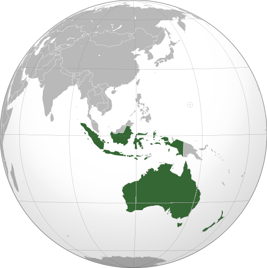 Map of countries in Oceania Burger King locations (orthographic projection)